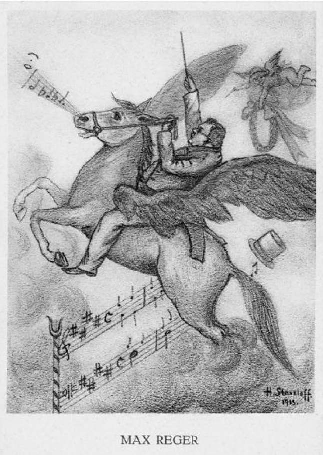 Caricature of Max Reger: the componist rides Pegasus jumping over the fence between musical genres. Notes on the fence are taken from Reger's Variations and Fugue on a Theme by Hiller.